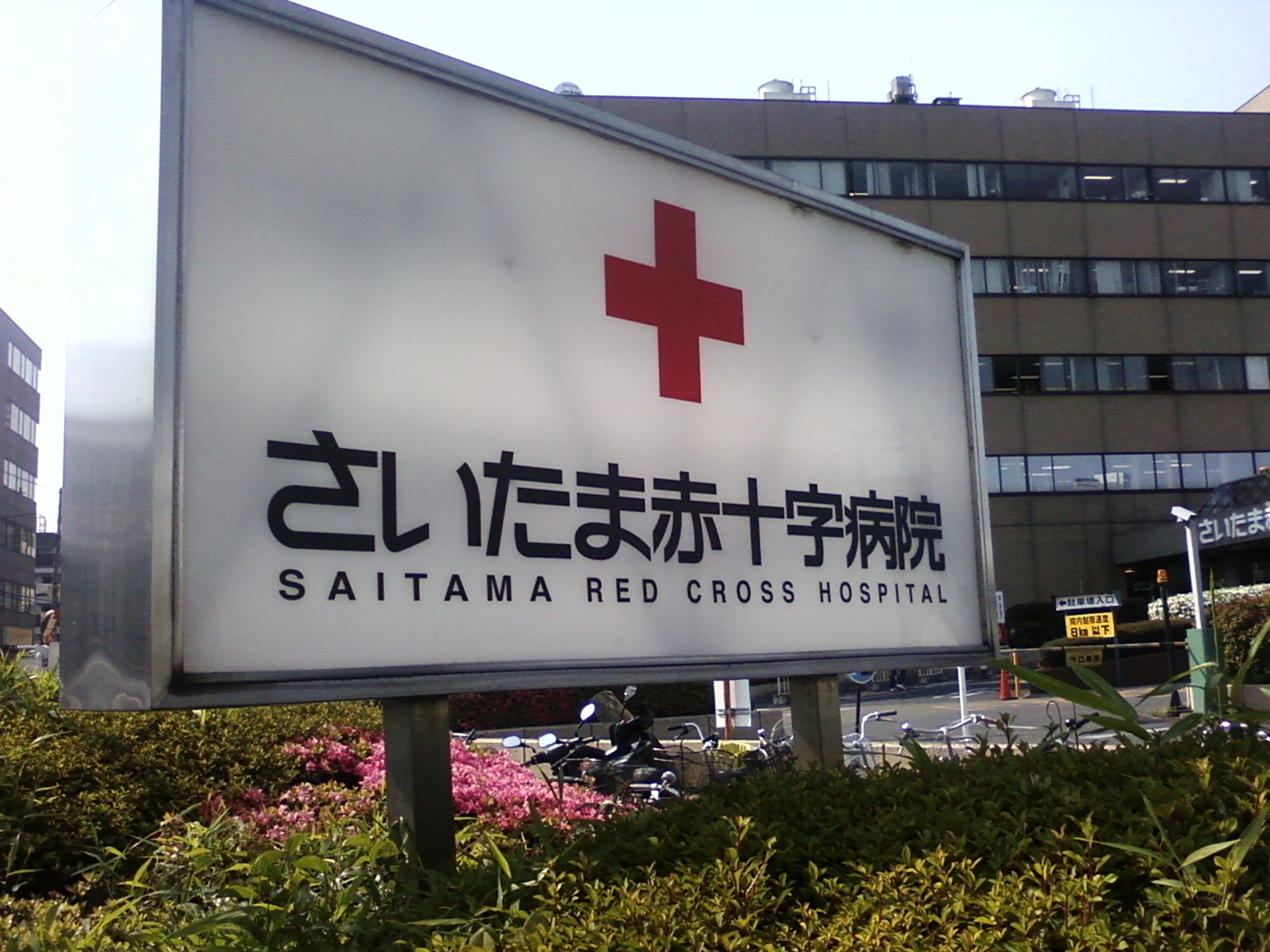 Saitama_Red_Cross_Hospital in Omiya